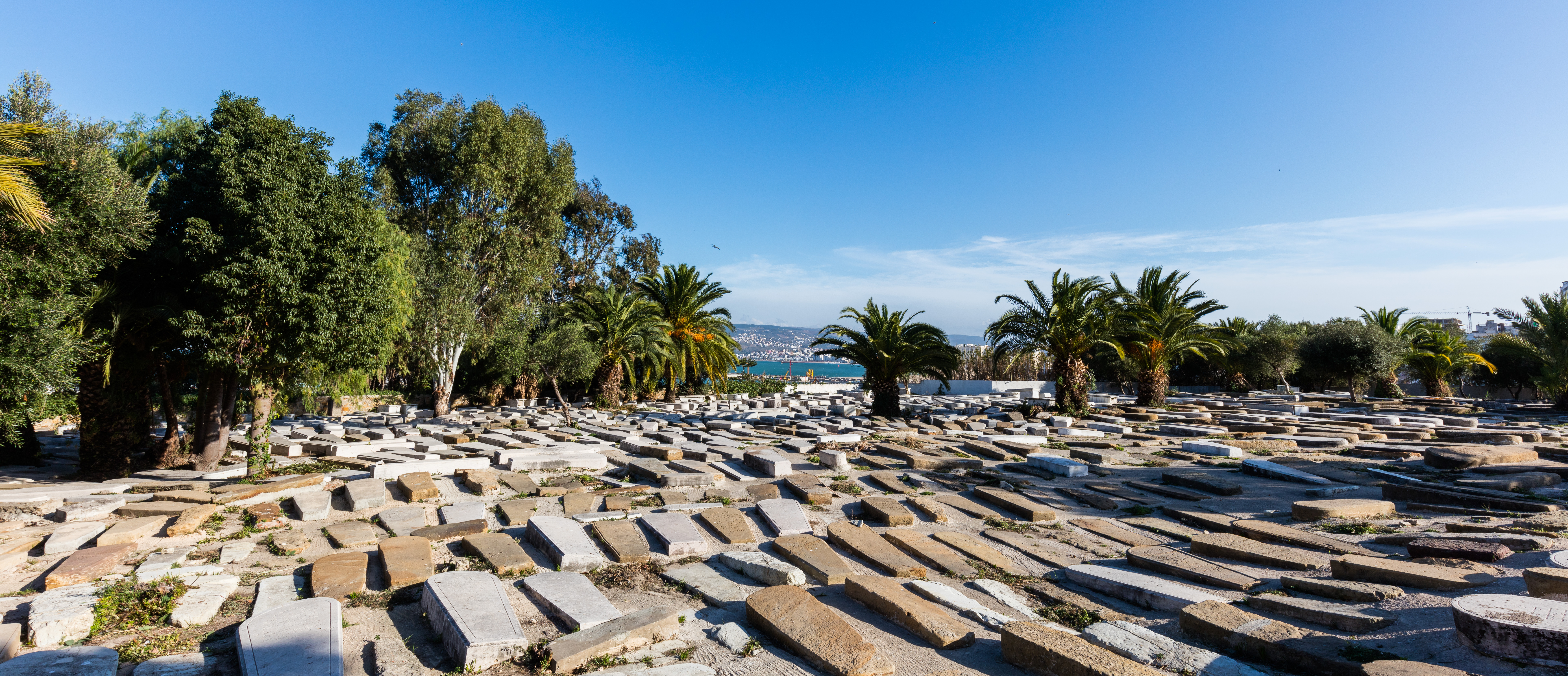 Jewish cemetery, Tangier, Morocco